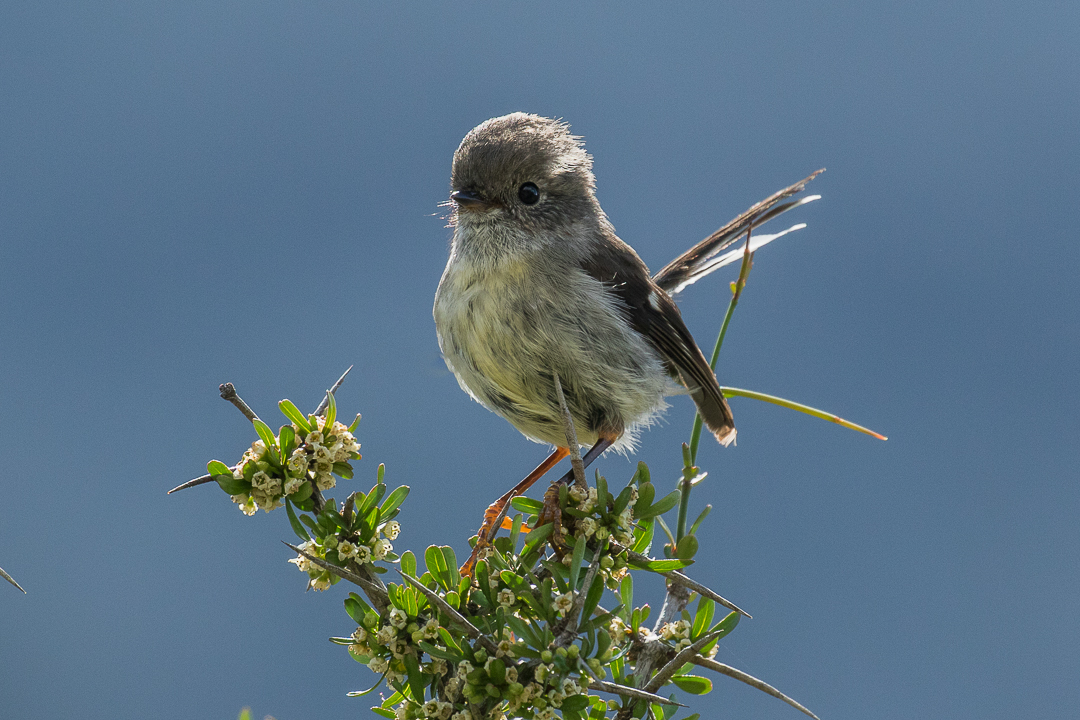 Tomtit fem - New Zealand_FJ0A5026